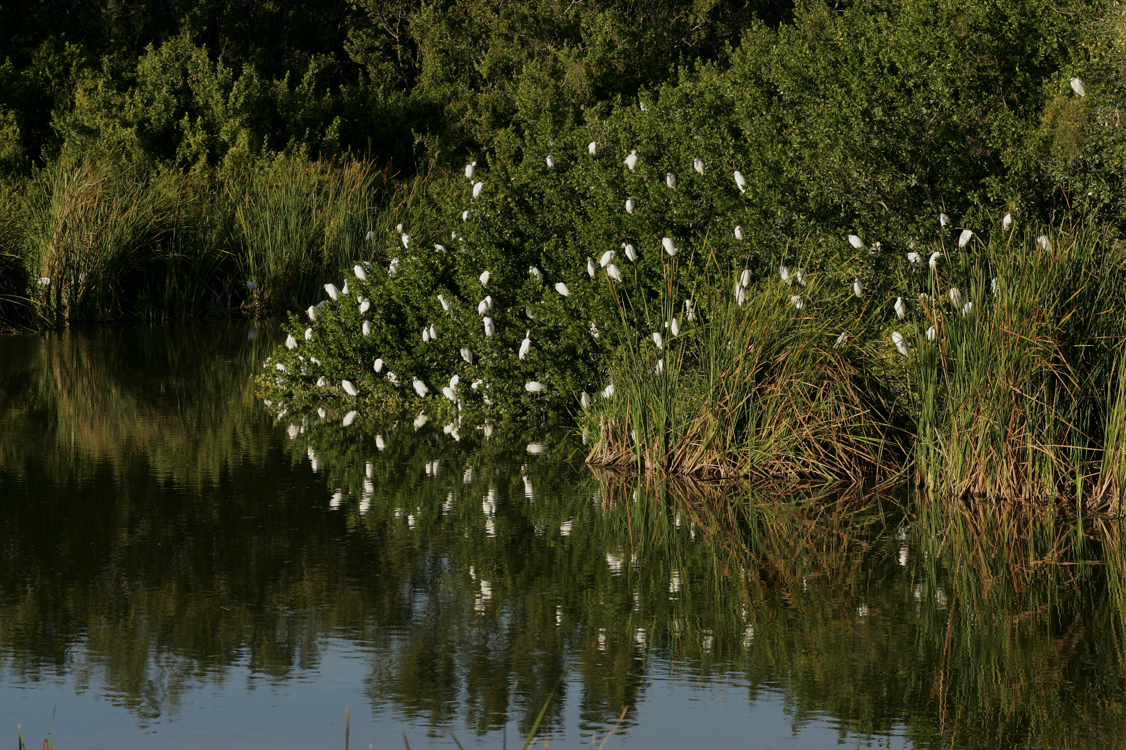 Snowy Egret - Eco Pond (2), NPSPhoto, R. Cammauf